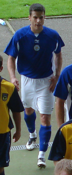 image of Bruno Berner